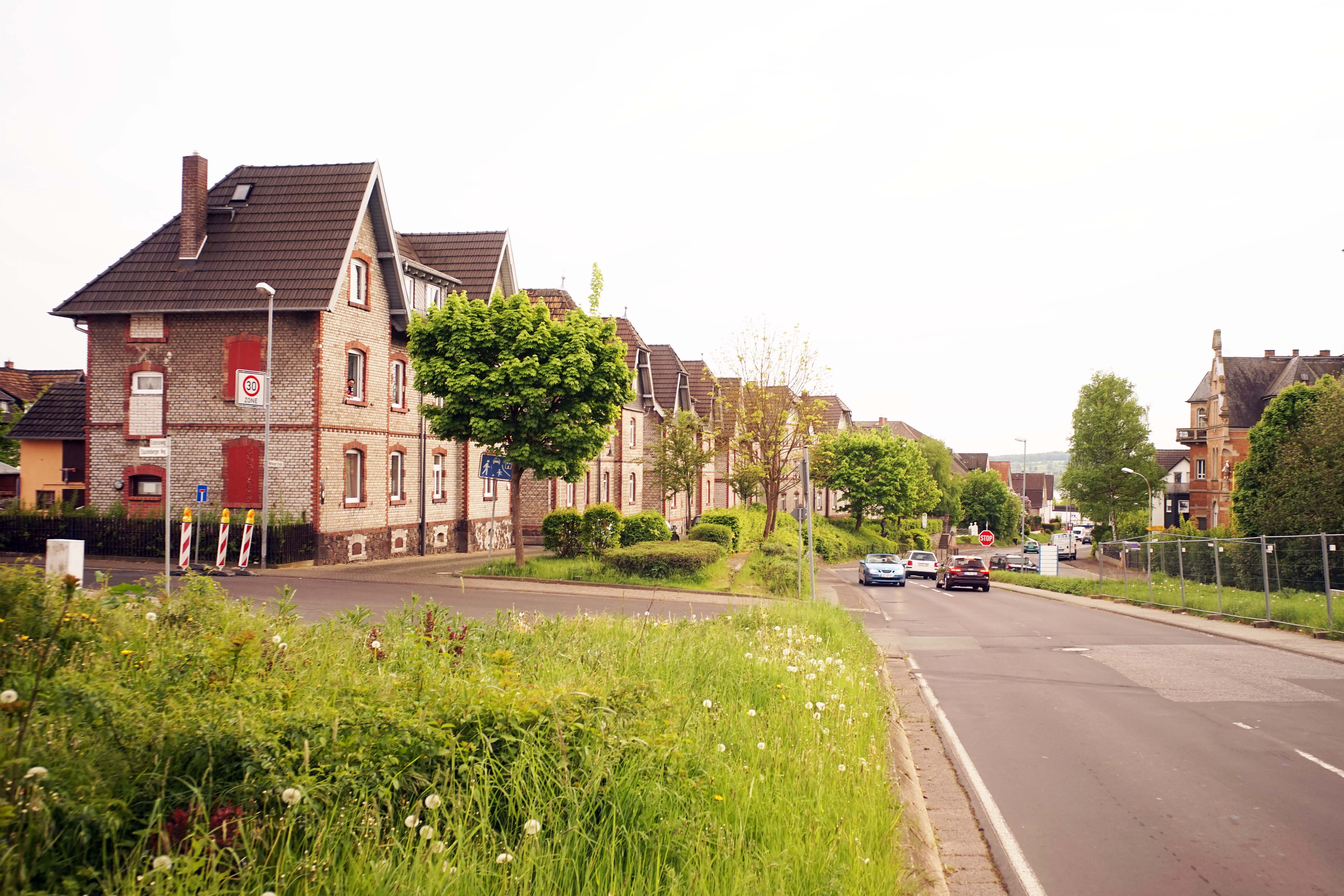 showing historical buildings constructed by the Buderus Eisenwerke. On the right the building called "Landsknecht"